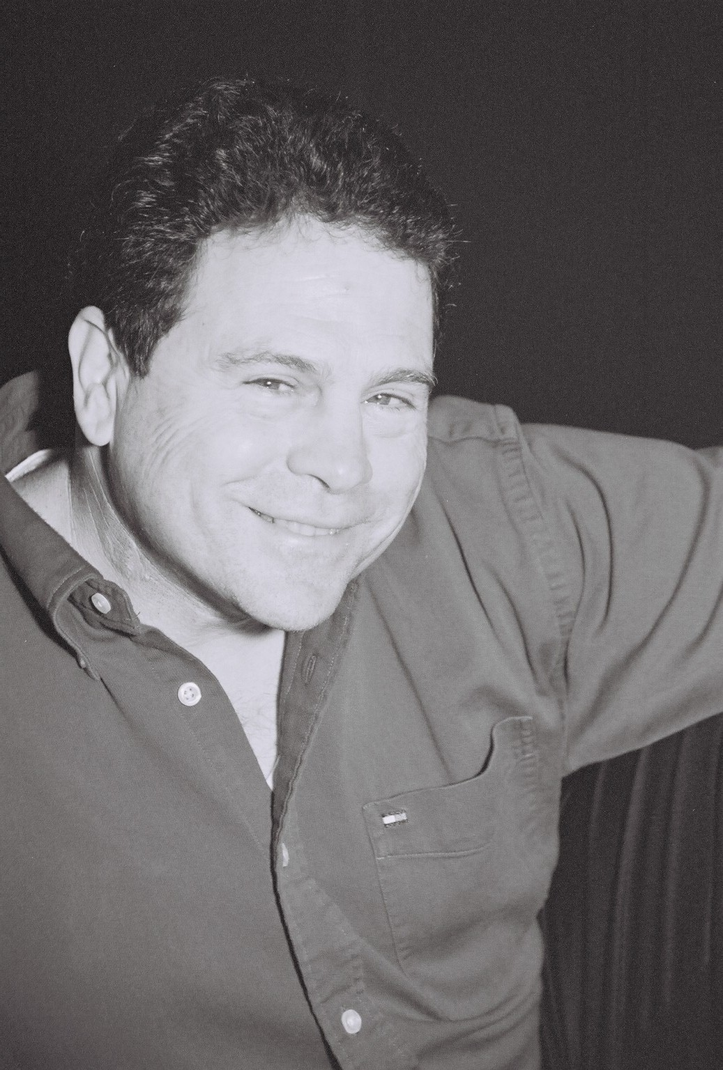 Picture of Dr. Howard Rosenthal.